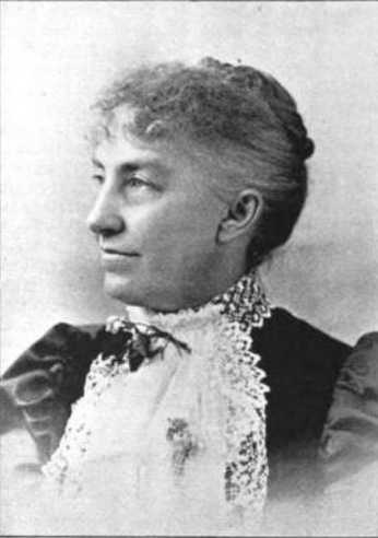 Dr. Susan Elizabeth Wood Crocker, from an 1896 publication.